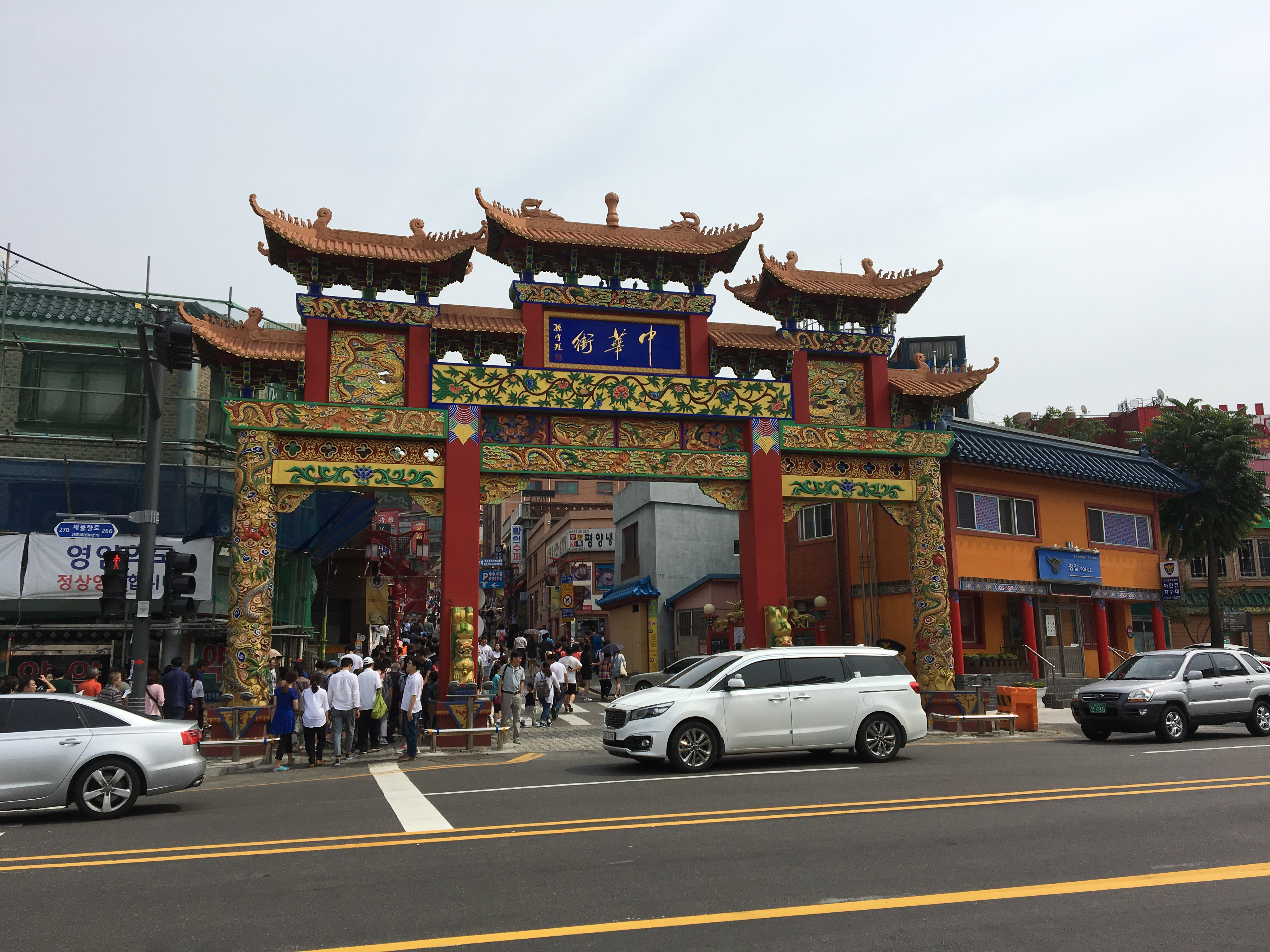 Incheon Chinatown